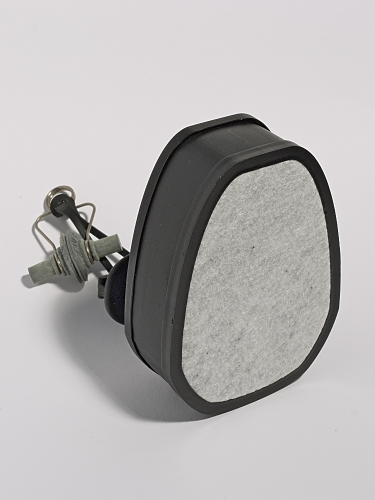 Escape respirator (breathing mask)